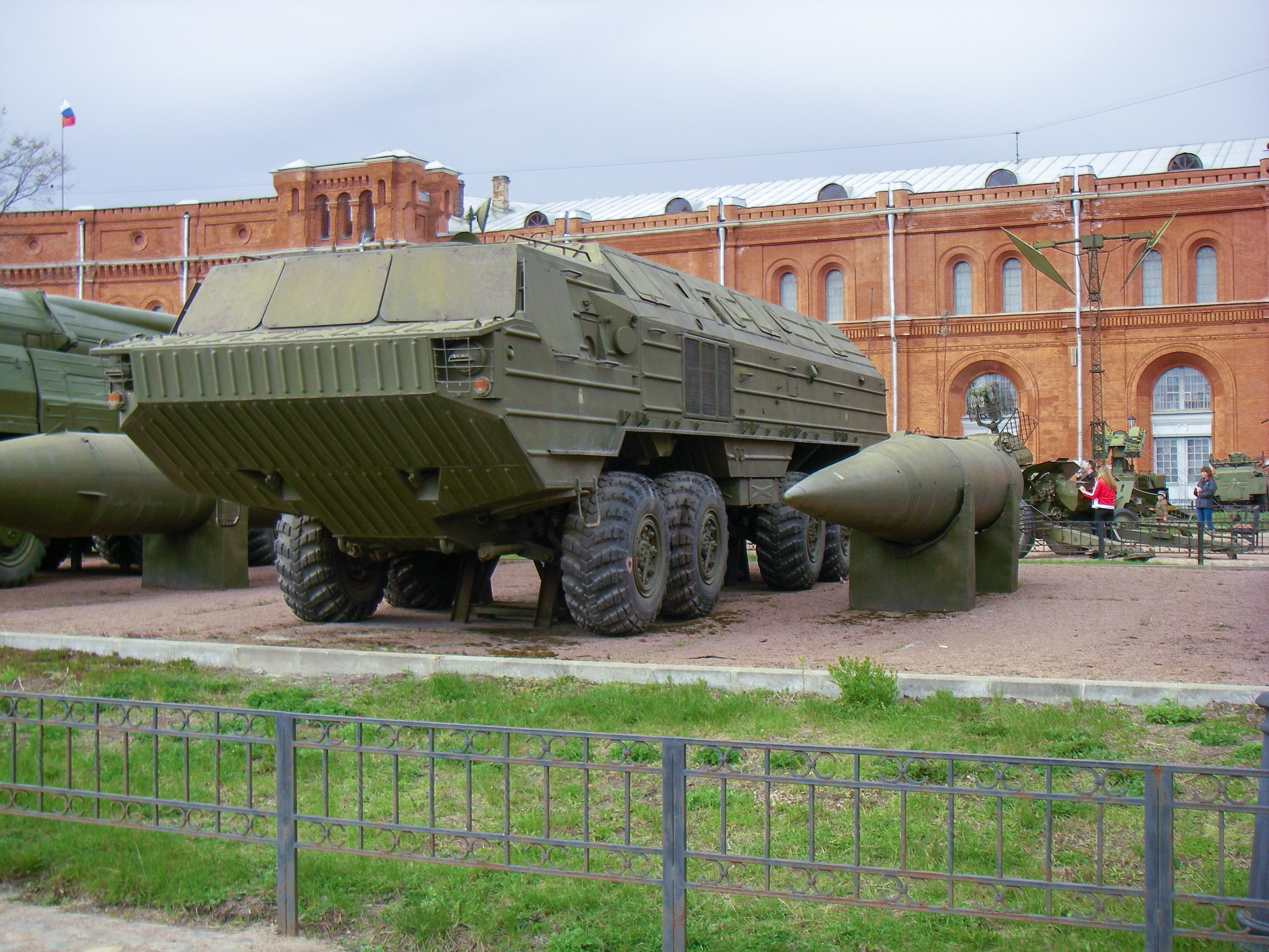 9P71 Transporter-Erector-Launcher and 9M714 rocket of 9K714 Tactical ballistic missile complex «Oka» in Military-historical Museum of Artillery, Engineer and Signal Corps in Saint-Petersburg, Russia.